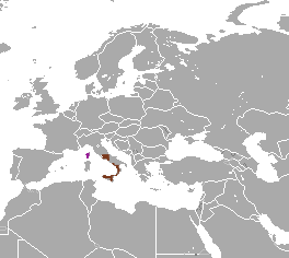 Corsican Hare (Lepus corsicanus) range, with the addition of national borders